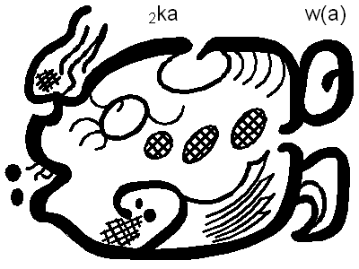 The word 'kakaw', the Mayan for 'cacao', written in the Maya script. The drawing is based on Kettunen, Harri; Helmke, Christophe (2008). "Introduction to Maya Hieroglyphs: Workshop Handbook'". p. 73.